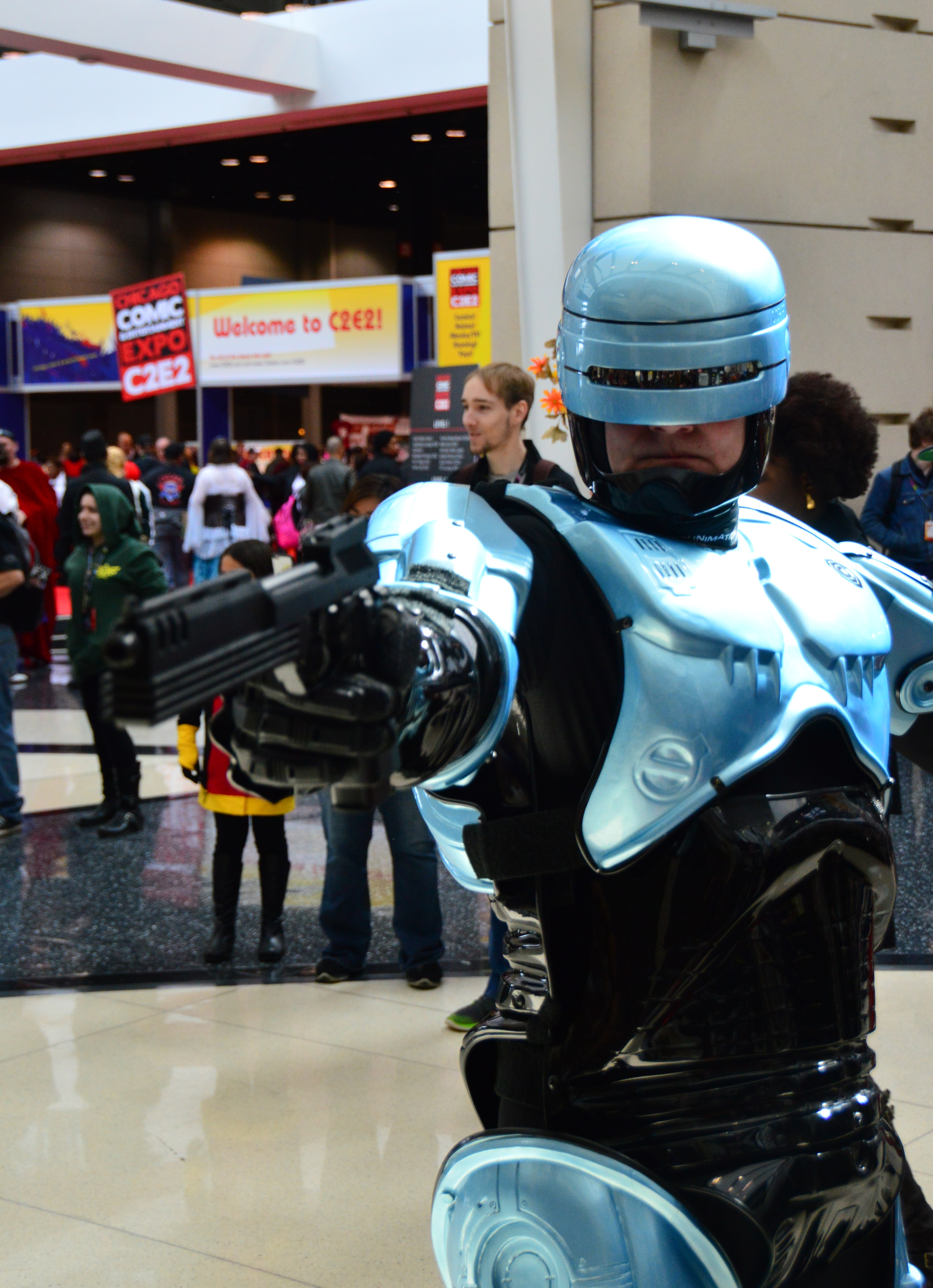 Robocop. Possibly the most accurate costume at the show. Cosplay at Chicago Comic & Entertainment Expo (C2E2) 2016.